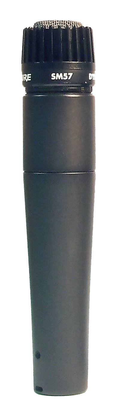 The Shure SM57 microphone.